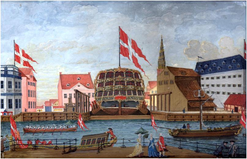 A ship in the dock (known as Old Dock) at Christiansborg in Copenhagen, Denmark. Later a warehouse - still known as Gammel Dok (Old Dock) was built on the site, today it houses Danish Architecture Centre. couache from c. 1750